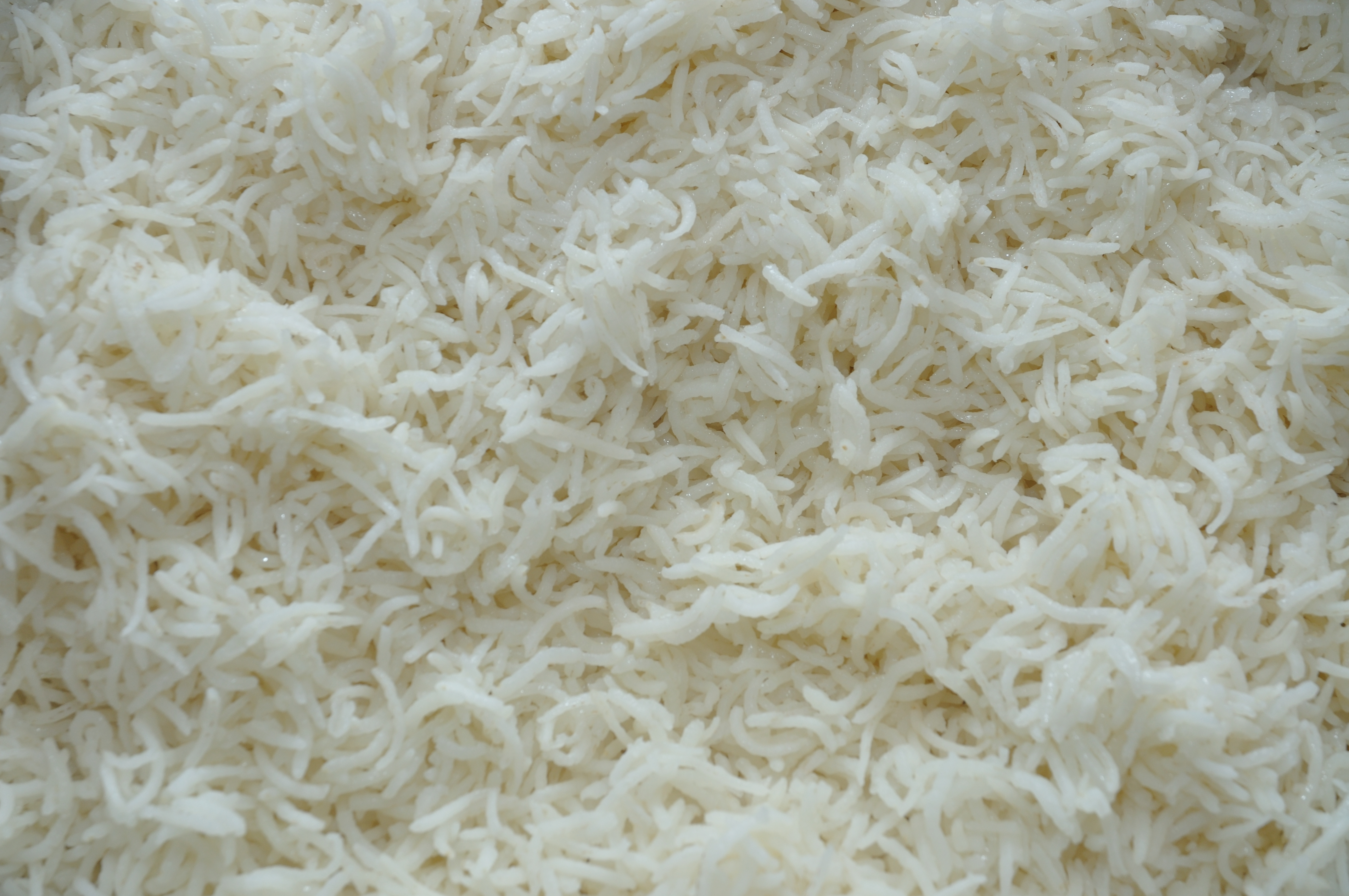 Popular West Bengal dishes.